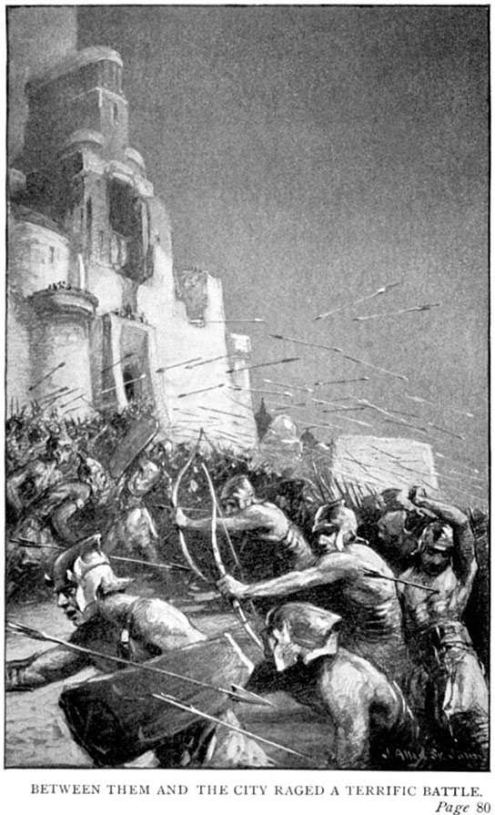 Art by James Allen St. John from Thuvia, Maid of Mars by Edgar Rice Burroughs, McClurg, 1920.